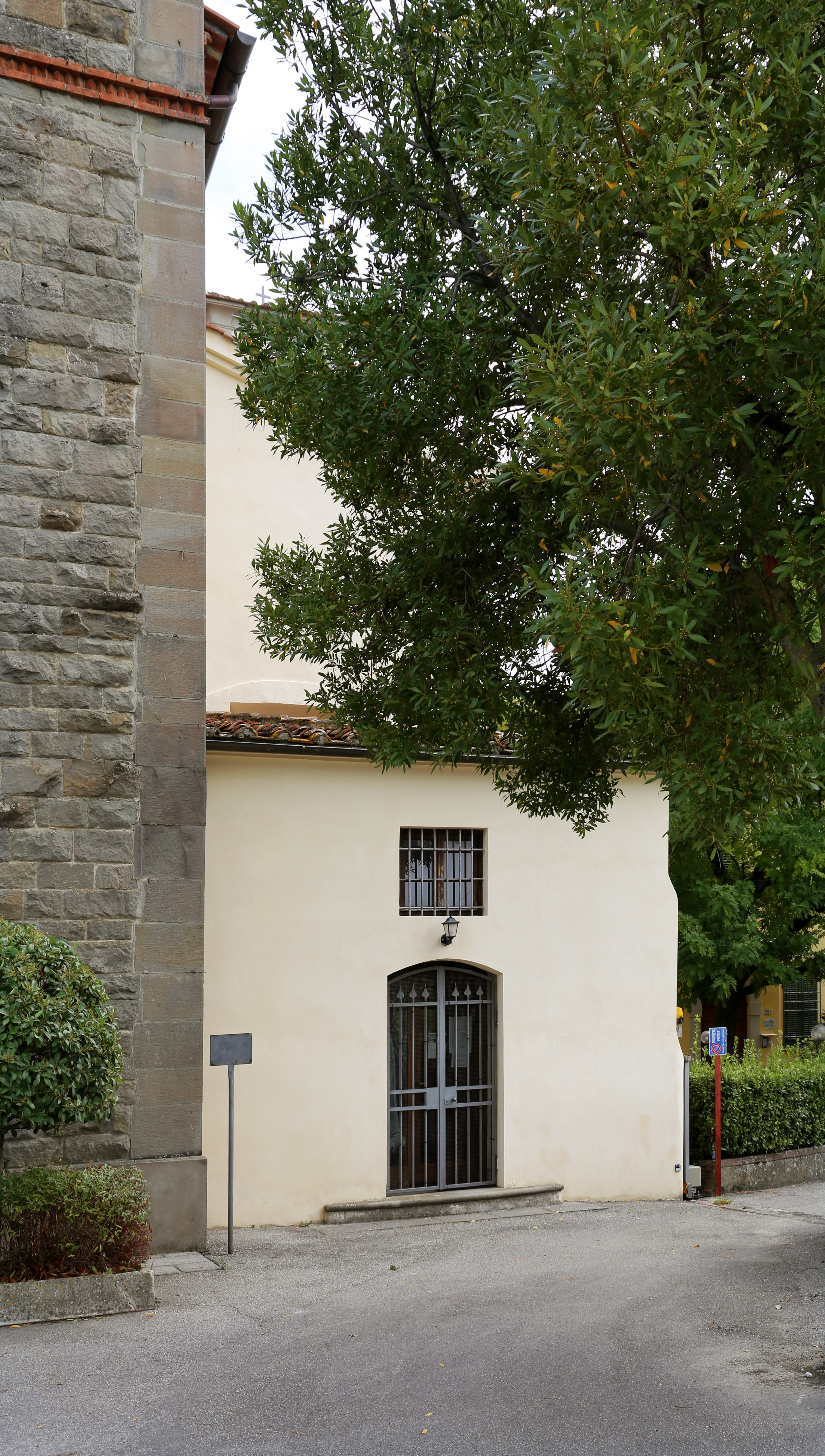 San Rocco (Pistoia)